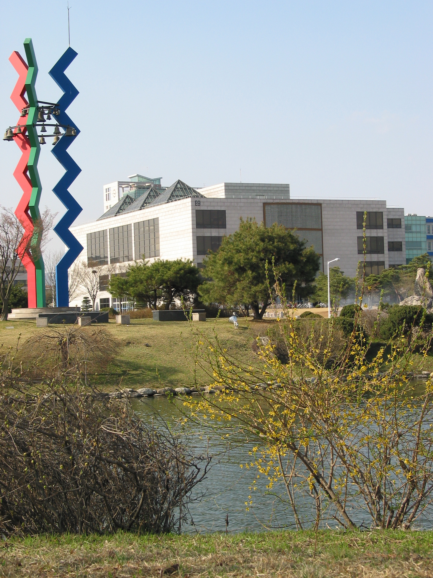 Science Library of KAIST, Daejeon